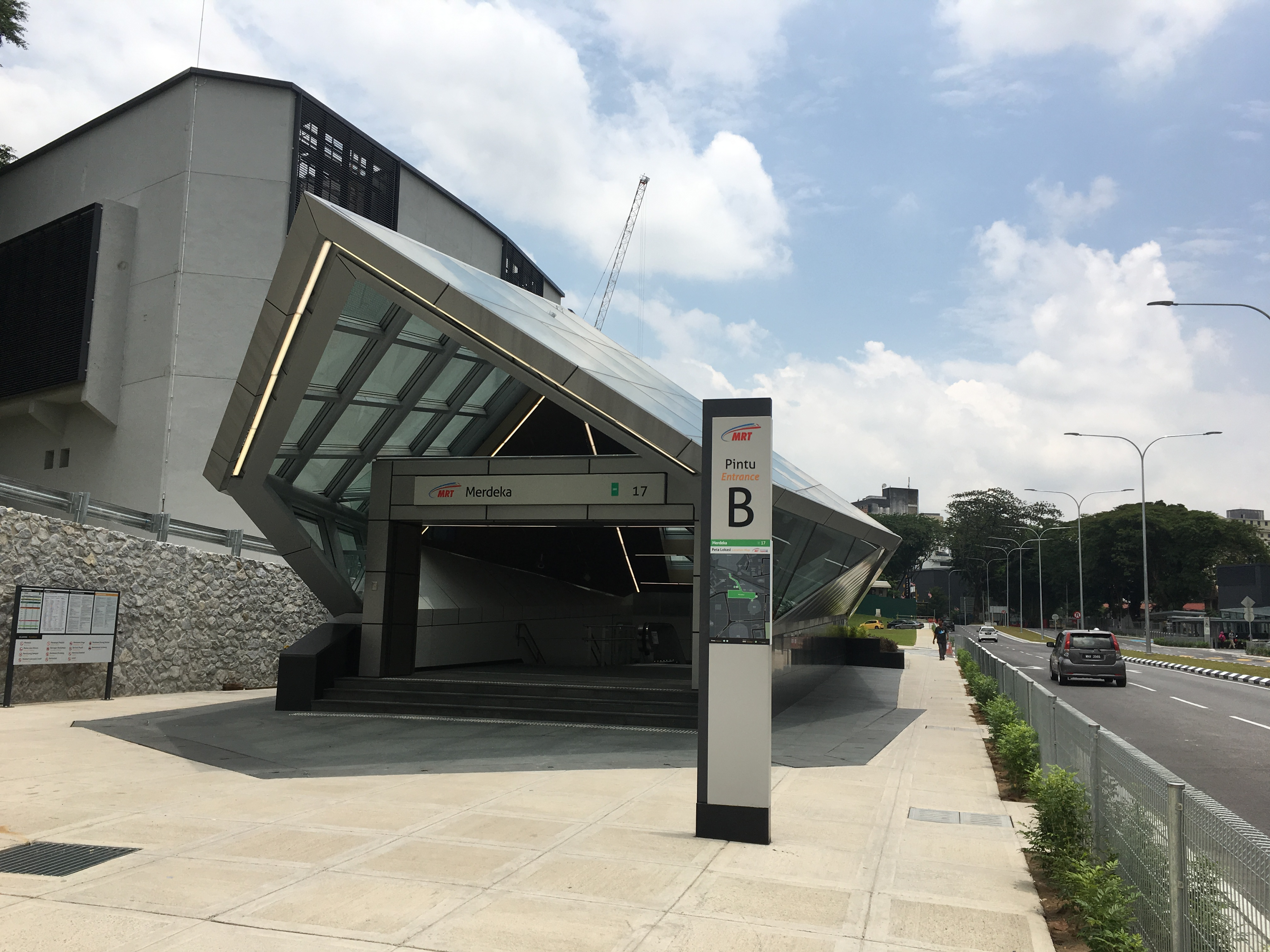 Merdeka MRT Station Entrance A on Jalan Hang Jebat next to the Stadium Negara.